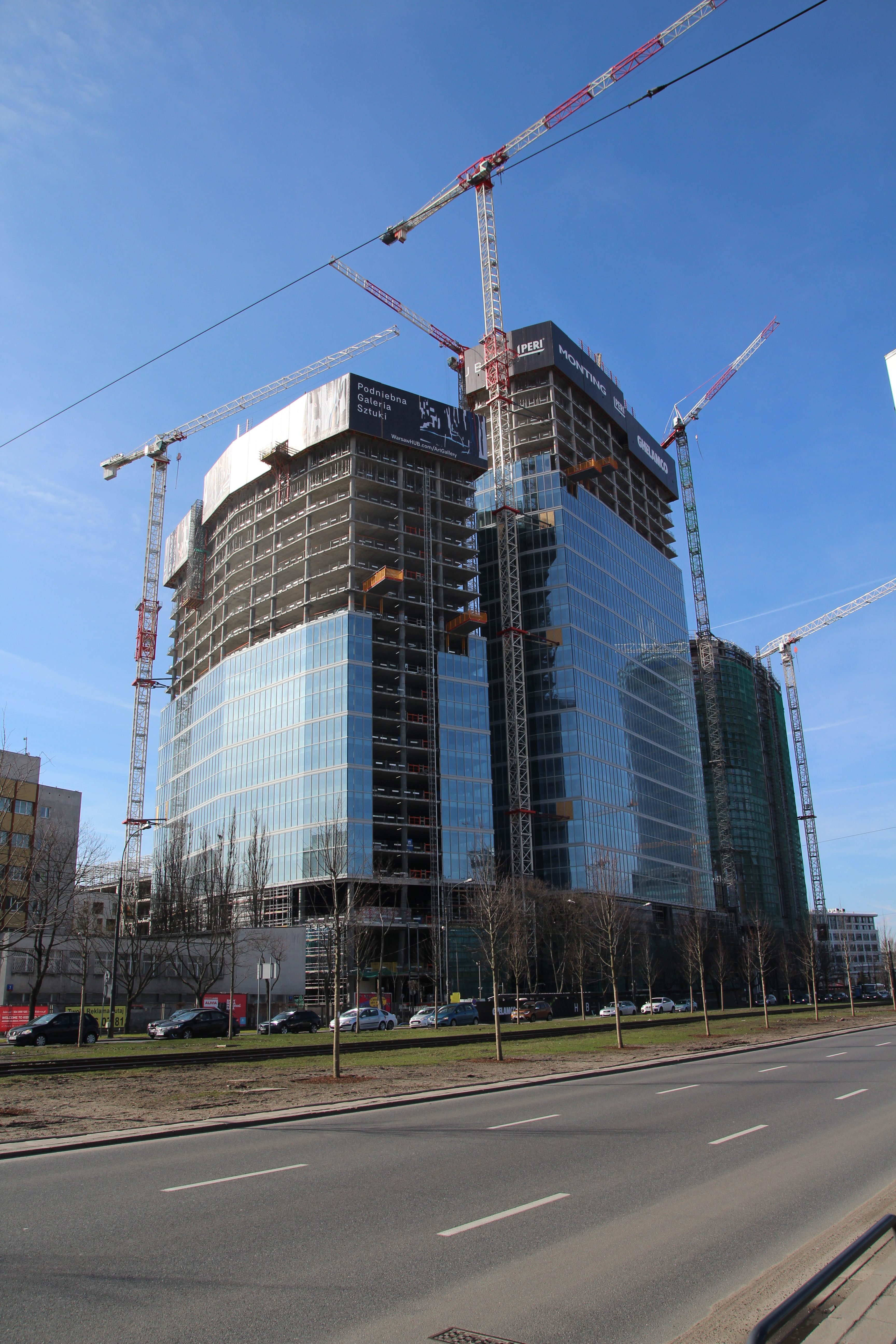 The Warsaw Hub, Warsaw